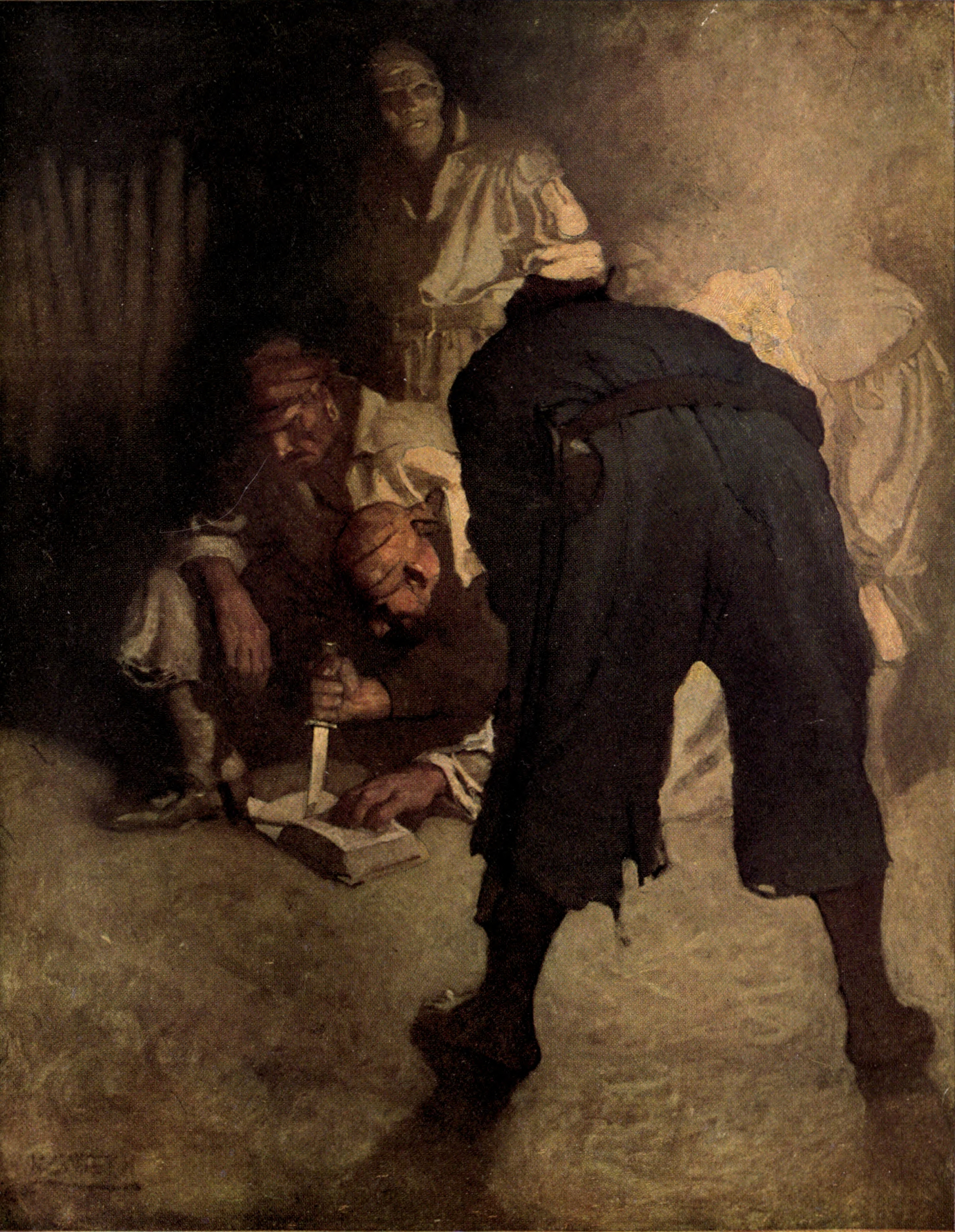 The pirates, preparing the Black Spot by cutting a page from a Bible. The Black Spot. Illustration by N. C. Wyeth for Treasure Island by Robert Louis Stevenson, Charles Scribner's Sons, 1911